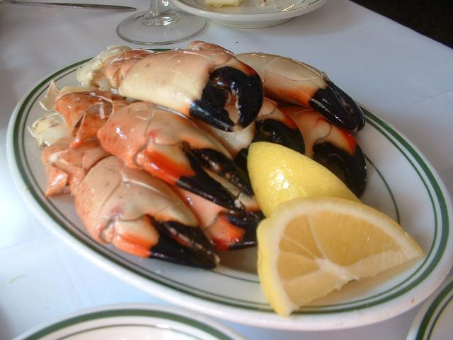 Cancer sp.